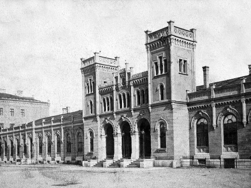 The first railwaystation in the austrian town Linz